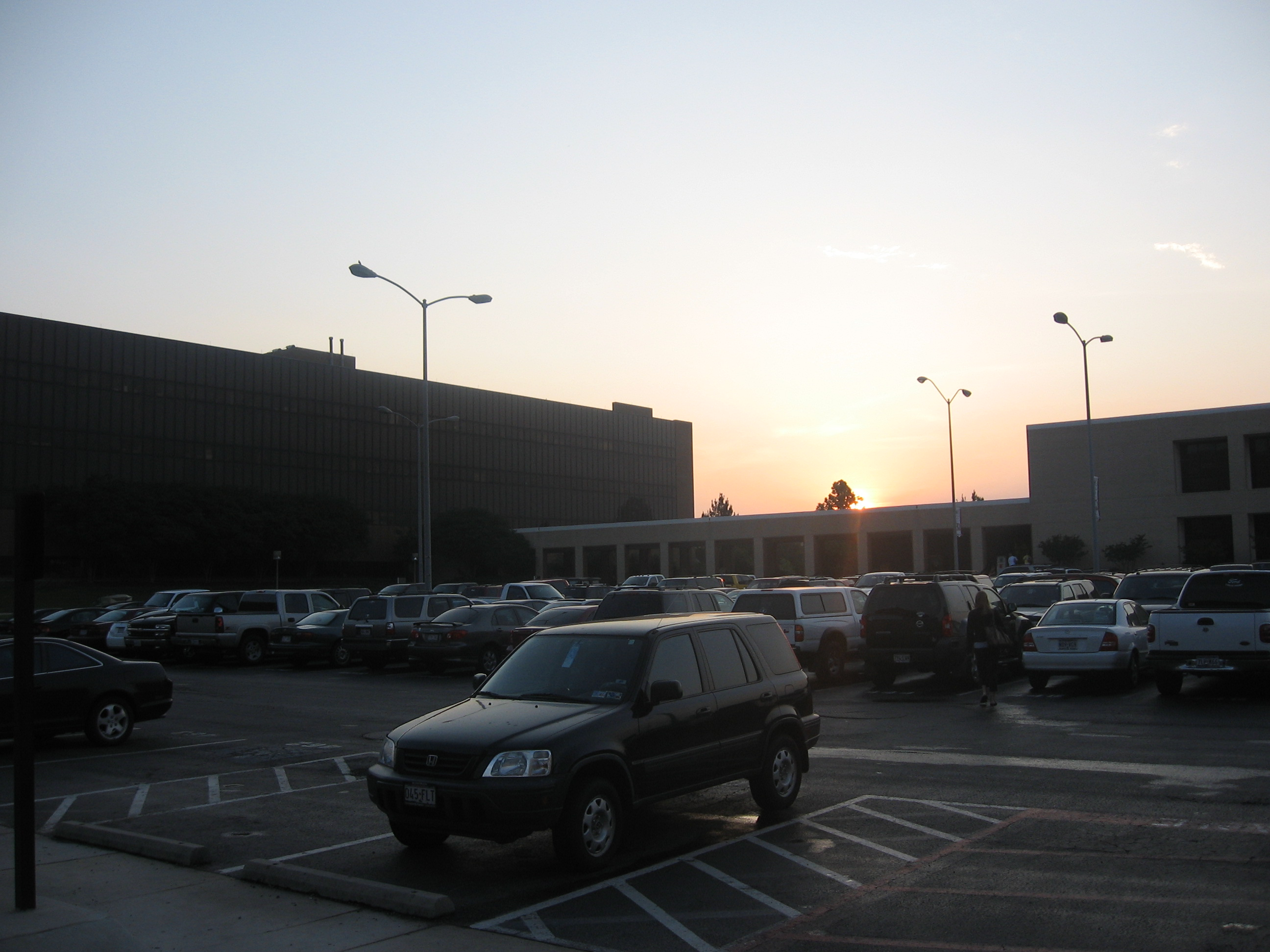 Medical School Texas A&M Health Science Center